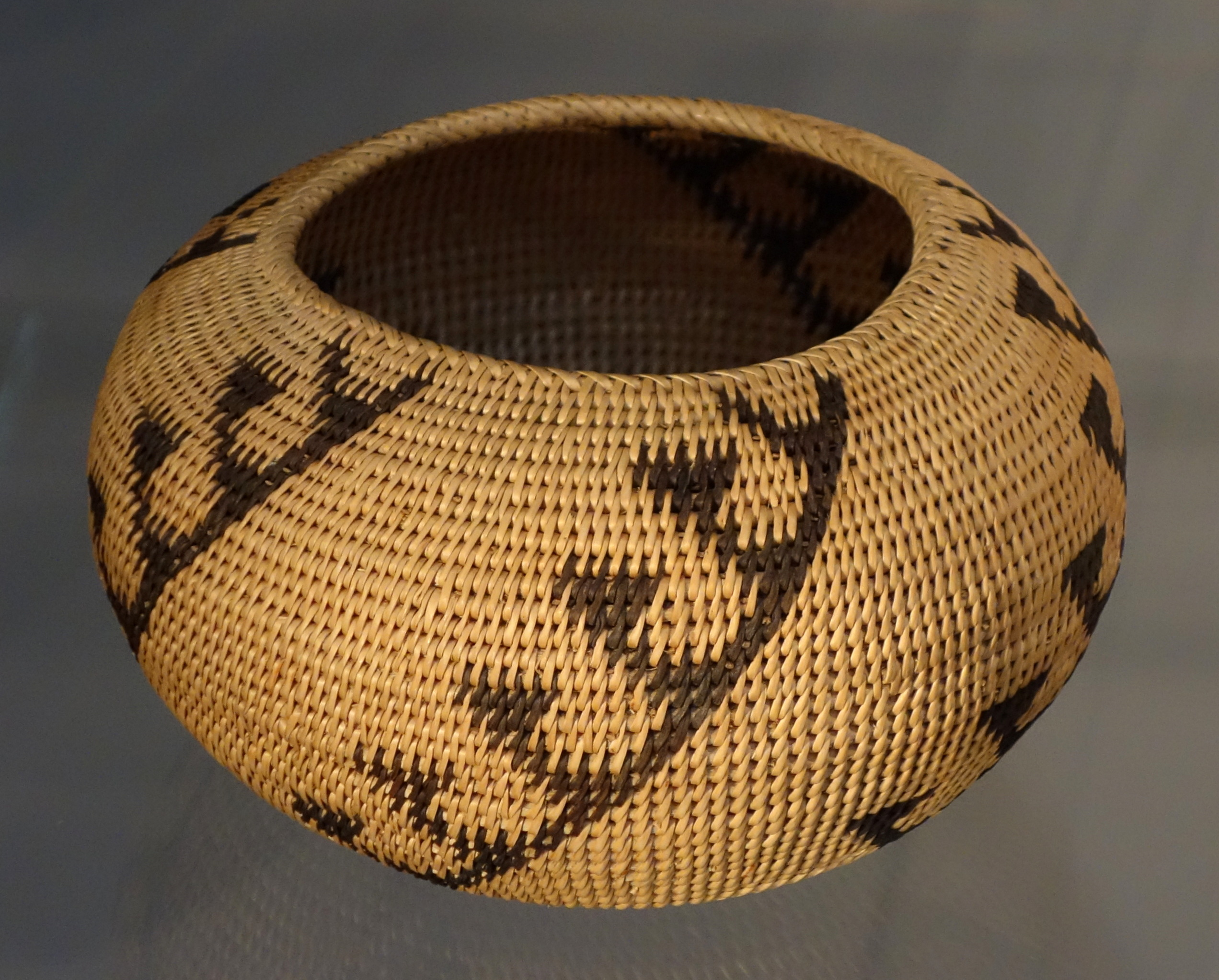 Exhibit in the Chazen Museum of Art, University of Wisconsin-Madison, Madison, Wisconsin, USA. This artwork is old enough so that it is in the public domain.